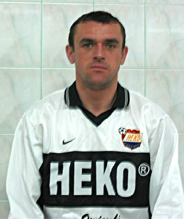 Grzegorz Piechna in HEKO Czermno - 2004